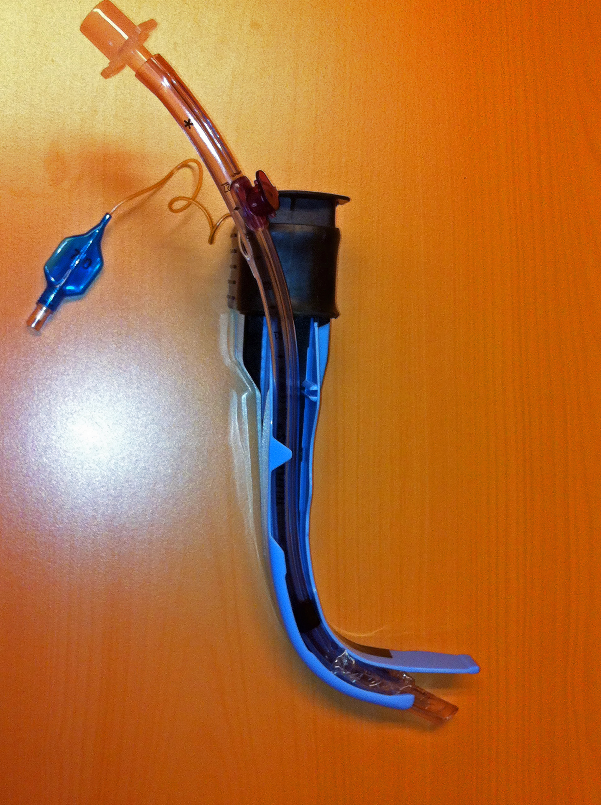 Photograph of Airtraq, a fibreoptic intubation device used for indirect (video or optic assisted) tracheal intubation.